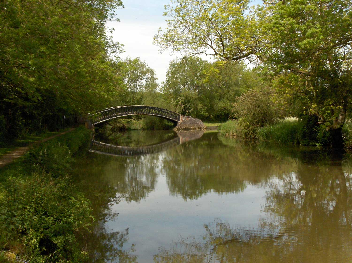 View upstream as the River Cherwell (flowing under the bridge) is joined by the Oxford Canal (coming from the right), close to the hamlet of Bunkers Hill.